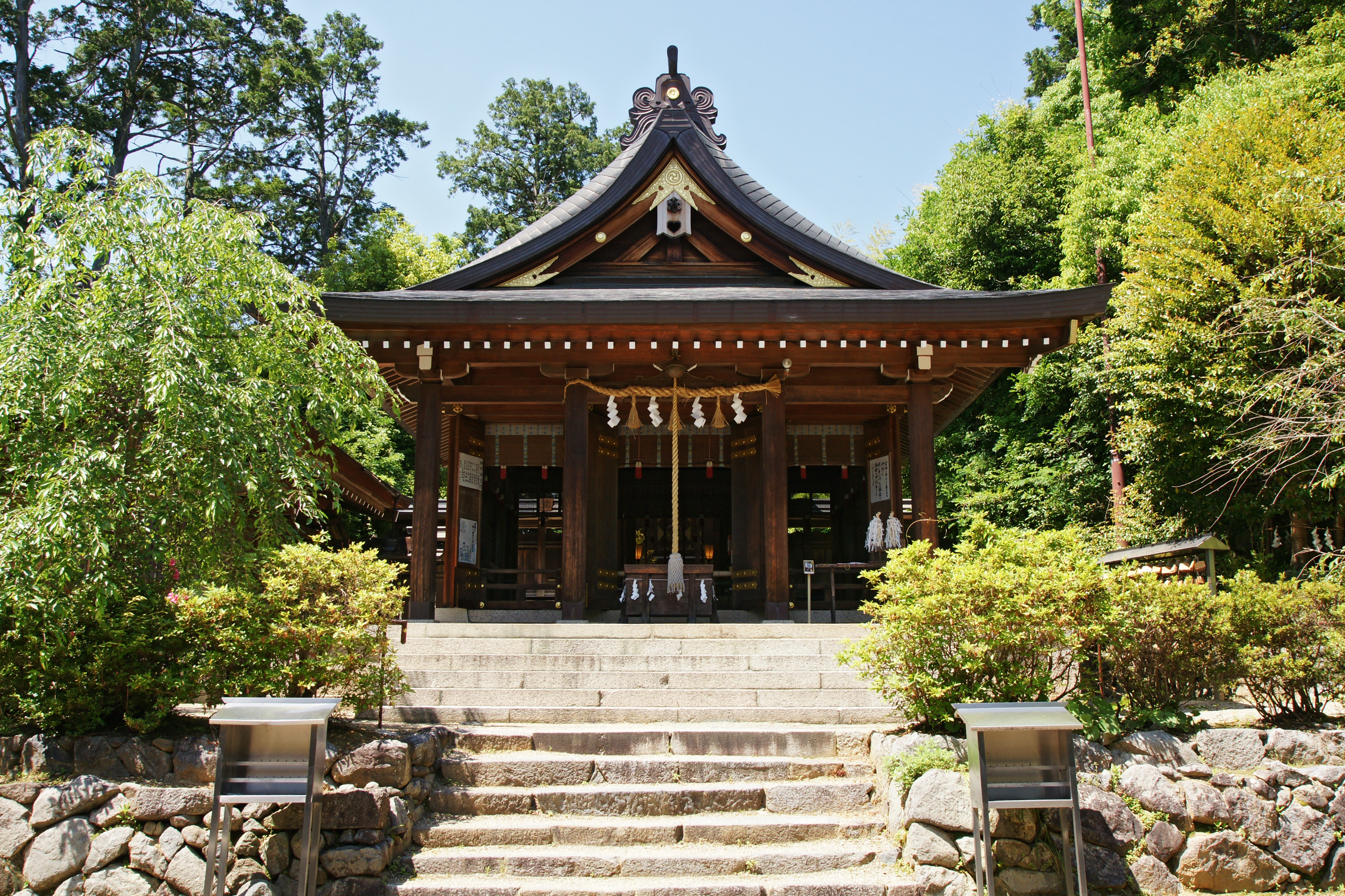 Asukaniimasu-jinja in Asuka, Nara Prefecture, Japan.